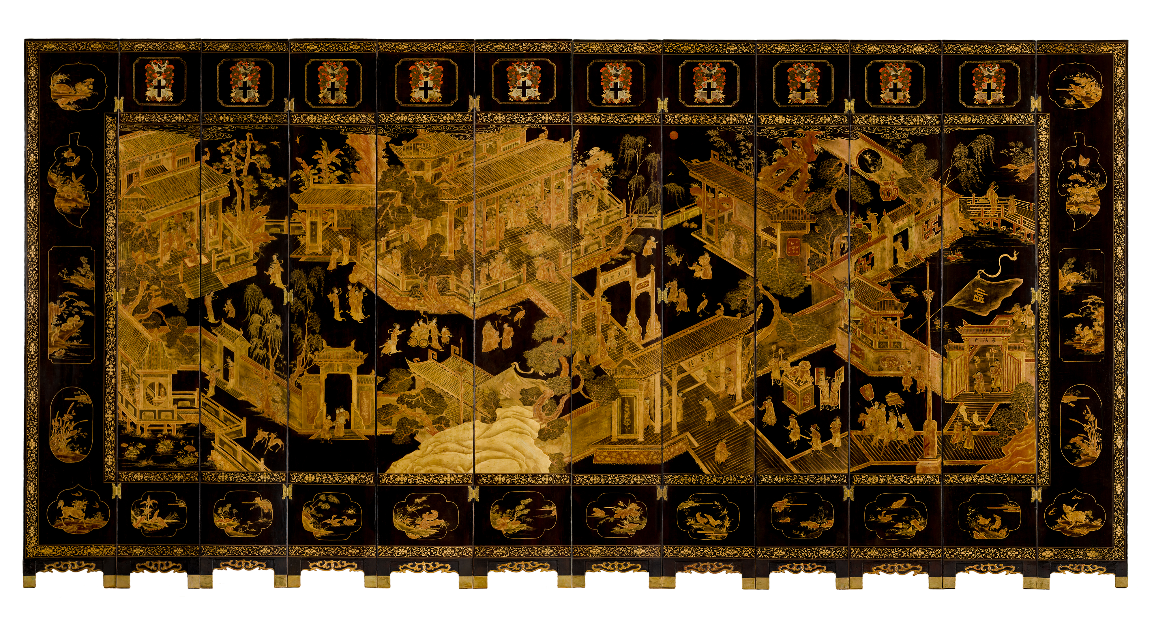 Artists from Guangzhou (Canton), Guangdong province, China Armorial screen Qing dynasty, 1720–1730, Wood, lacquer, gold, Museum purchase, 2004. E84093 Peabody Essex Museum